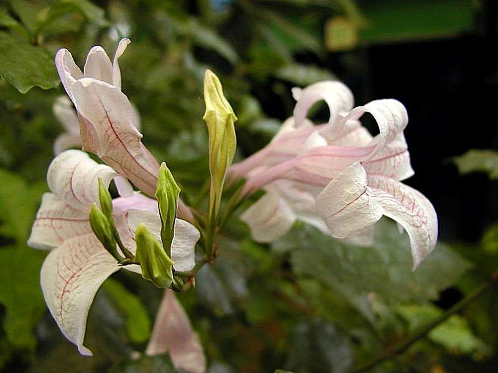 Image title: Plants flowers Image from Public domain images website